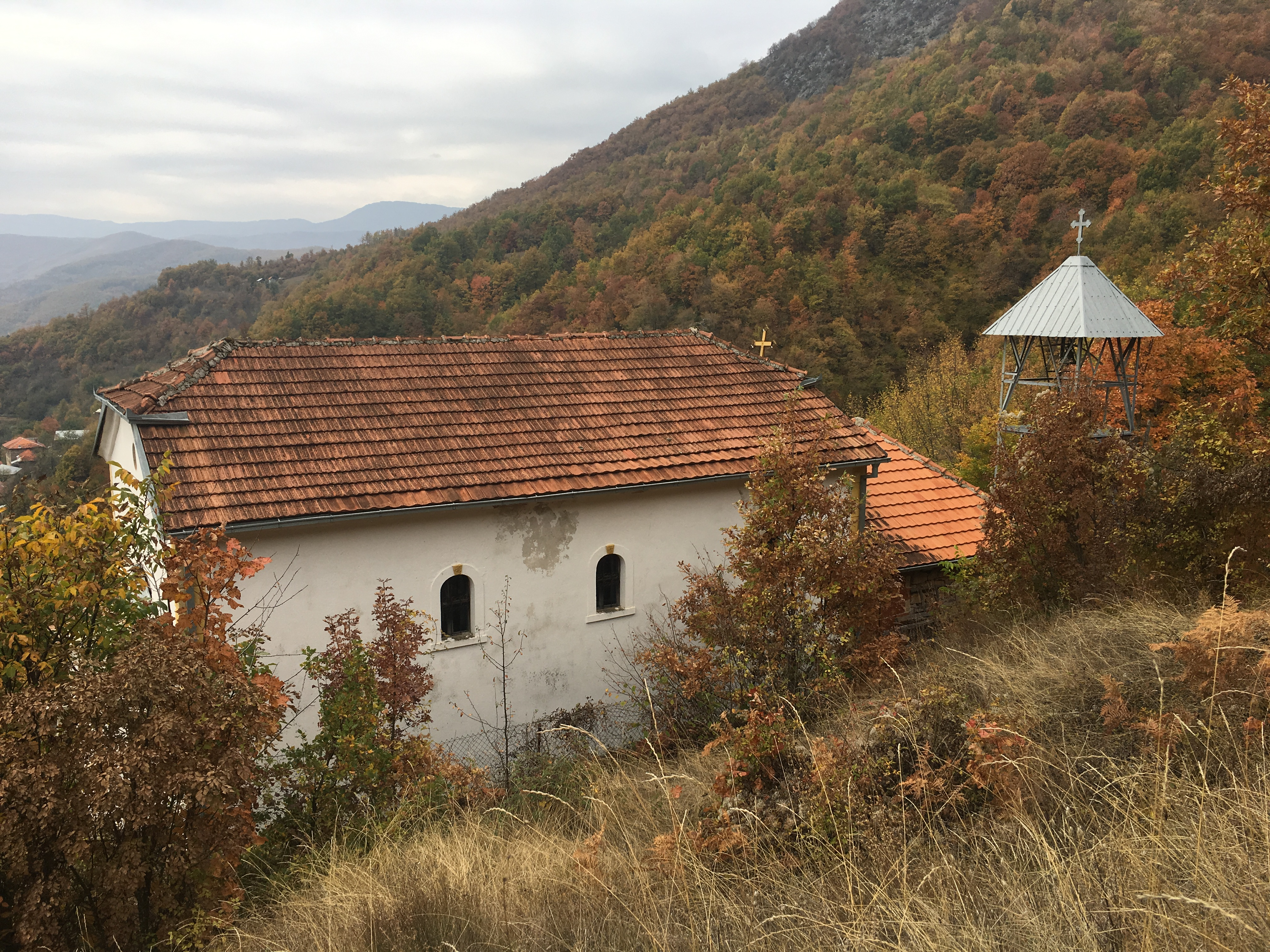 Wikiexpedition to Kopačka